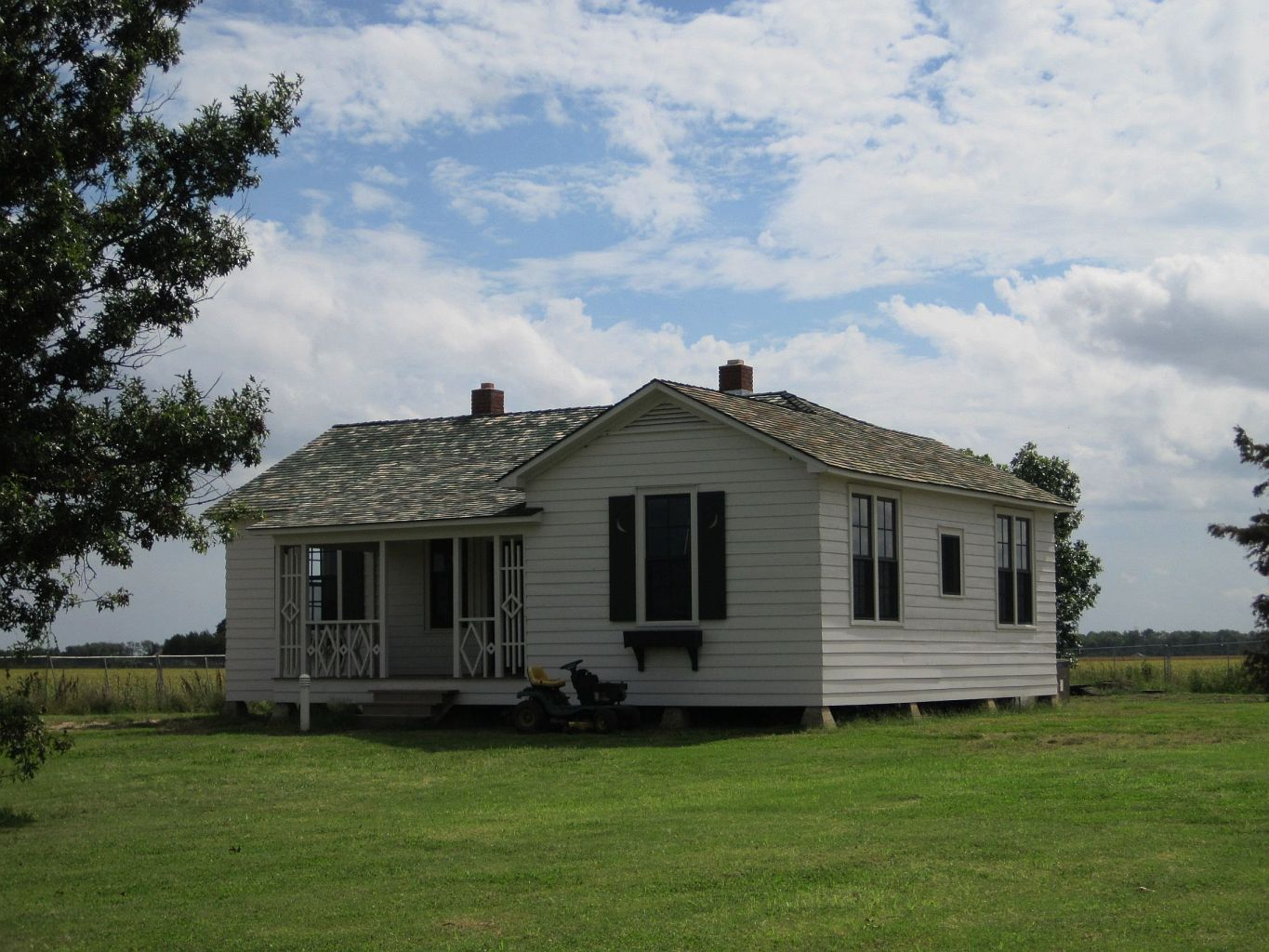 Johnny Cash boyhood home (Dyess, Arkansas)